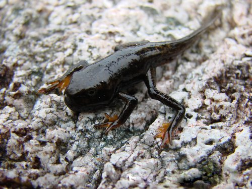 Atelopus carrikeri